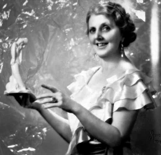 Australian music publisher and patron of the arts Louise Hanson-Dyer (1884-1962) photographed by Spencer Shier (1884-1950).